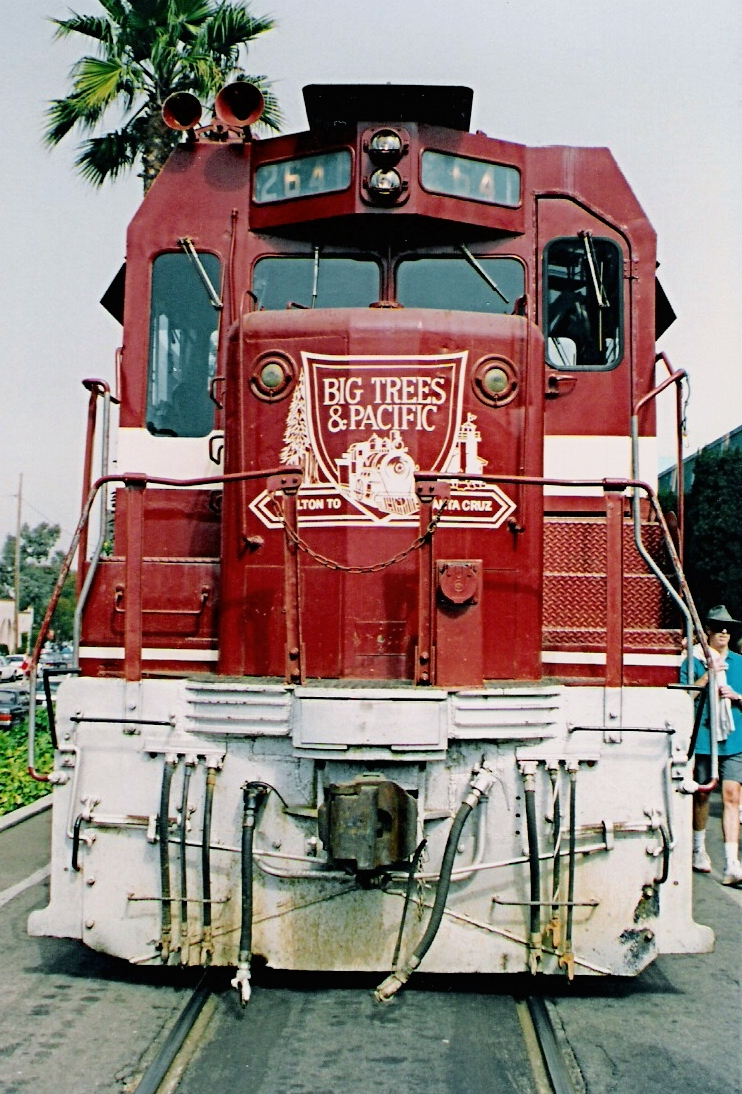 Santa Cruz, Big Trees and Pacific Railway #2641, a CF7 locomotive, stops at the boardwalk in Santa Cruz, California.